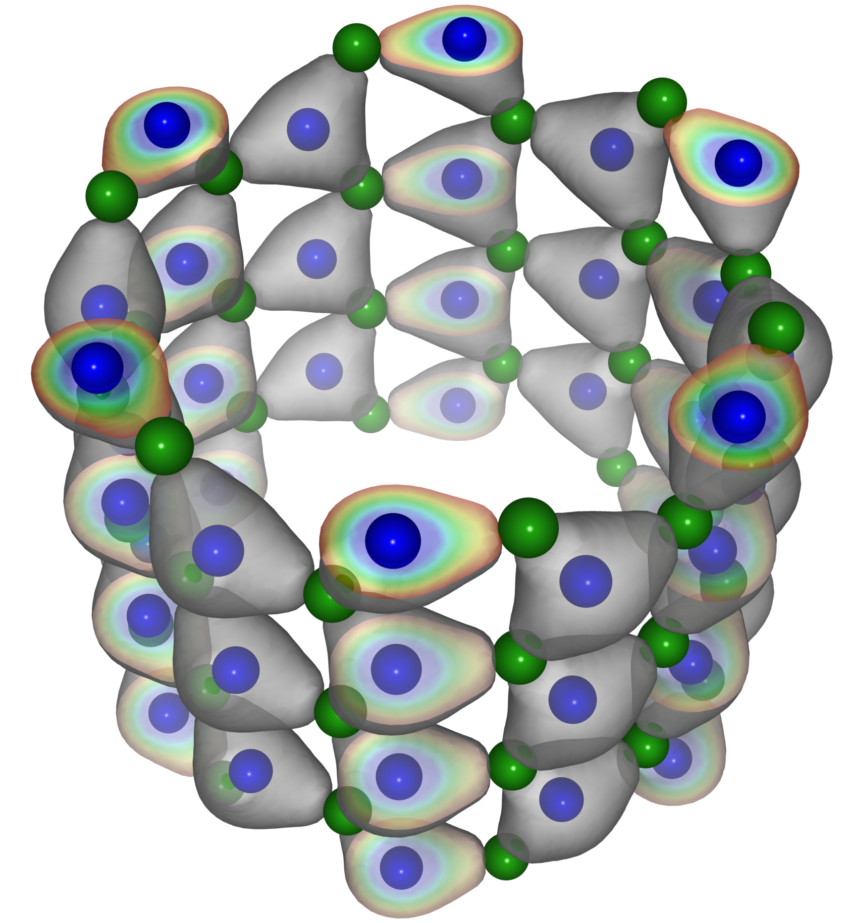 Valence charge density of a boron nitride nanotube.